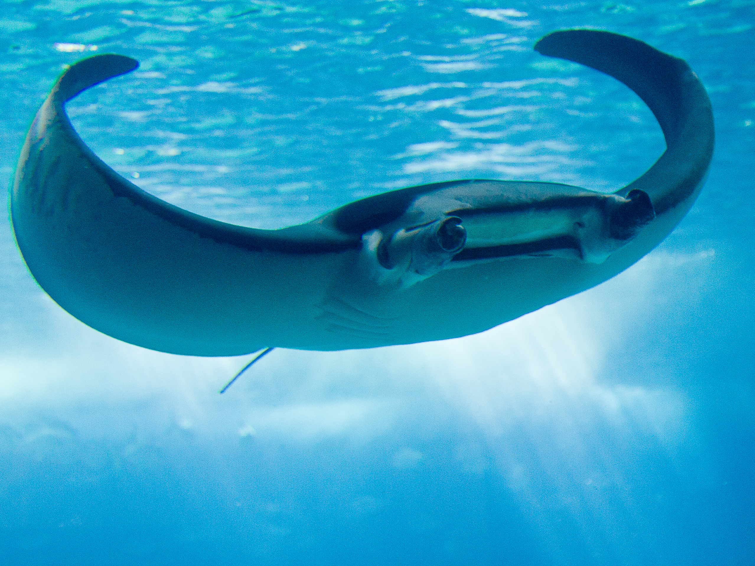 Mobula Ray in "Oceanário de Lisboa", 2008